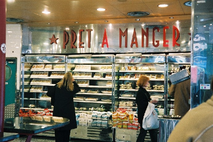 Pret A Manger, Strand, London, October 2004